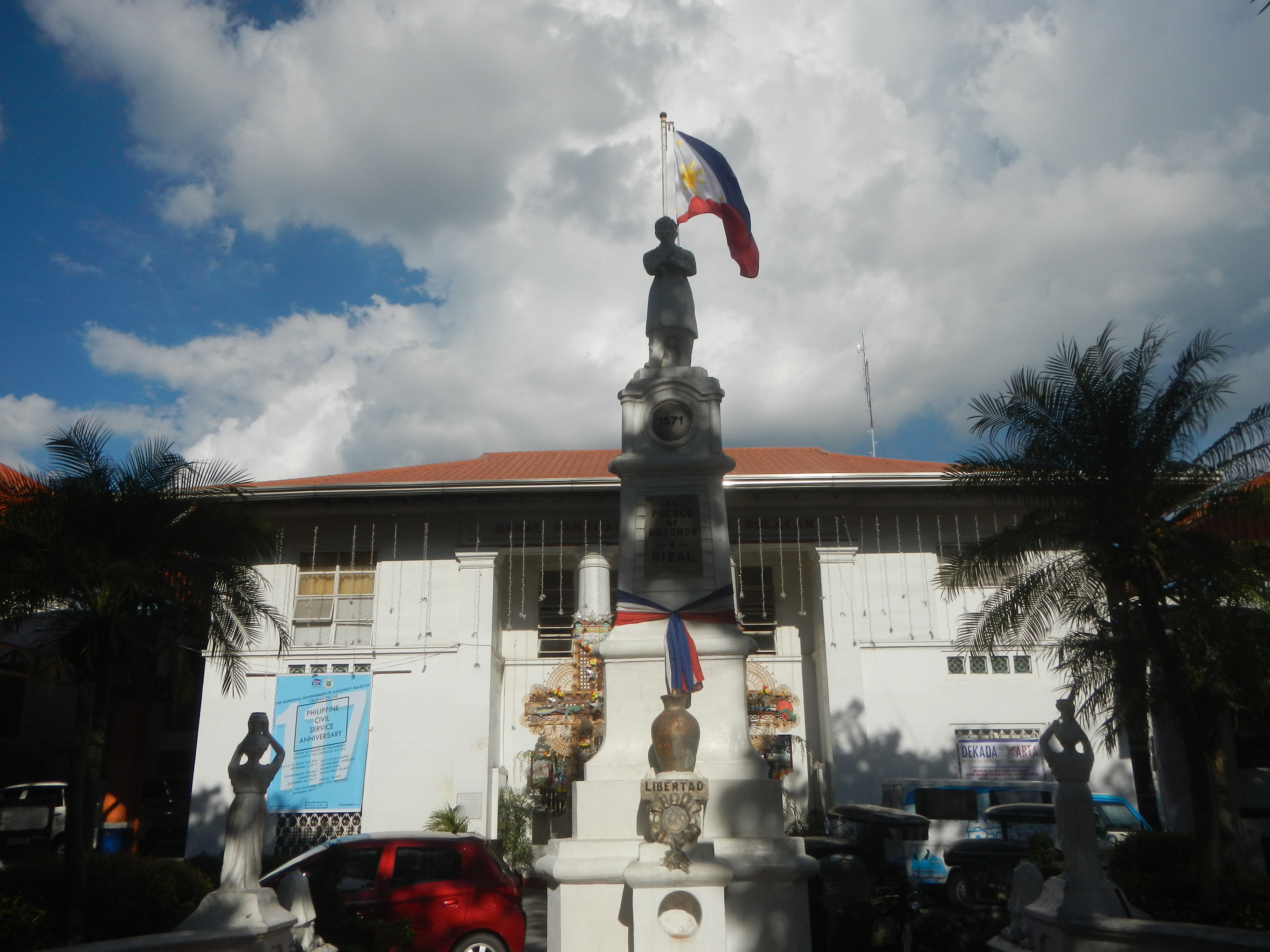 Santo Niño, Hagonoy, Bulacan Municipal Road Hagonoy East Central School, Bulacan Hagonoy, Bulacan Municipal Hall Hagonoy, Bulacan Hagonoy, Bulacan Municipal Park and Fountain Fire razes Hagonoy, Bulacan Market Aug 18, 2010 Burned Old Hagonoy Market Hagonoy Public Market, Commercial Complex & Punduhang Bayan (San Sebastian, Hagonoy, Bulacan) Hagonoy River (Bulacan) Upgrading-Concreting of F. L. Sebastian Street & M. H. del Pilar Street (San Sebastian-Santo Niño, Hagonoy, Bulacan) San Sebastian-San Jose, Hagonoy, Bulacan Bridge; Town Proper Barangays Santo Niño 14°50'26"N 120°44'33"E San Sebastian 14°49'42"N 120°44'14"E San Nicolas 14°48'58"N 120°43'50"E Hagonoy, Bulacan (Note: Judge Florentino Floro, the owner, to repeat, Donor Florentino Floro of all these photos hereby donate gratuitously, freely and unconditionally all these photos to and for Wikimedia Commons, exclusively, for public use of the public domain, and again without any condition whatsoever).